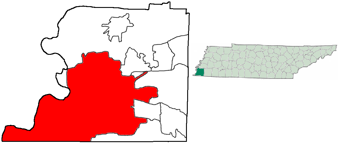 Made using US Census Bureau Data.